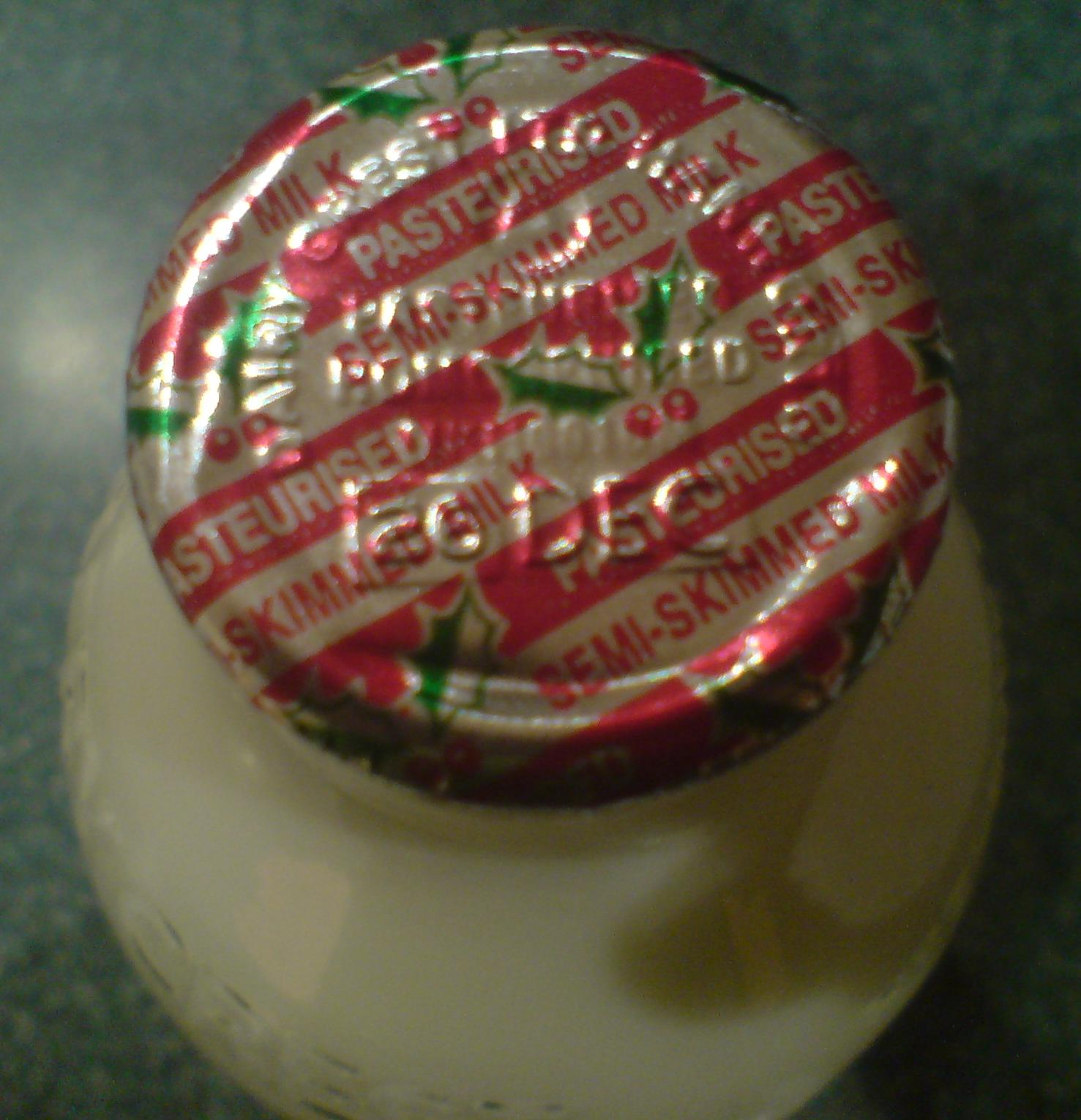 Photo of a Christmas themed foil milk bottle top from semi-skimmed milk